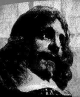 Gérard Desargues, founder of projective geometry